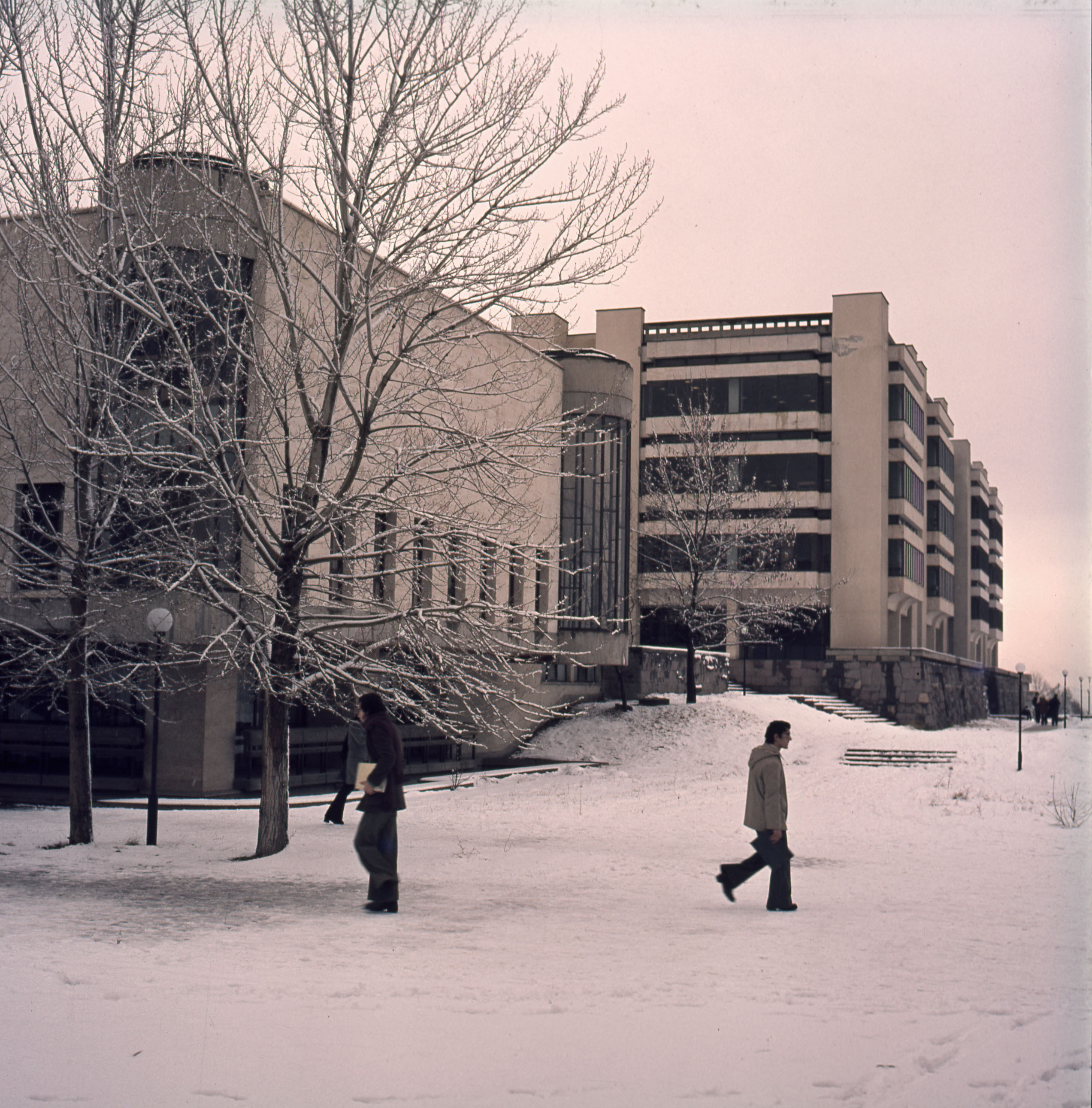 Old and new buildings of METU Library, 1961-1980 SALT Research, Altuğ-Behruz Çinici Archive ODTÜ Kütüphanesi, eski ve yeni binalar, 1961-1980 SALT Araştırma, Altuğ-Behruz Çinici Arşivi